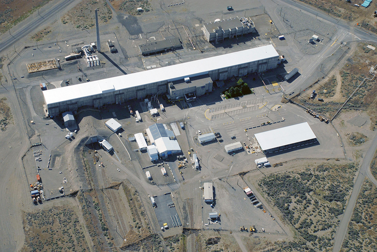 The T Plant was the first chemical processing and separations plant of its kind in the world. Construction began in 1943, with the plant becoming operational in 1945. Nicknamed the “Queen Mary” since T Plant was long and thin like the well known ocean liner, this facility was used to take the irradiated fuel rods that had been in the B Reactor and expose them to a series of chemical processes. The chemicals were needed to dissolve away the fuel rods themselves, allowing workers to access and then extract the tiny amount of plutonium that was produced when the rods were involved in nuclear chain reactions in the reactors.